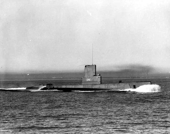 USS_Croaker; Starboard side view of the Croaker (SSK-246), underway, circa mid 50's. US Navy photo courtesy of